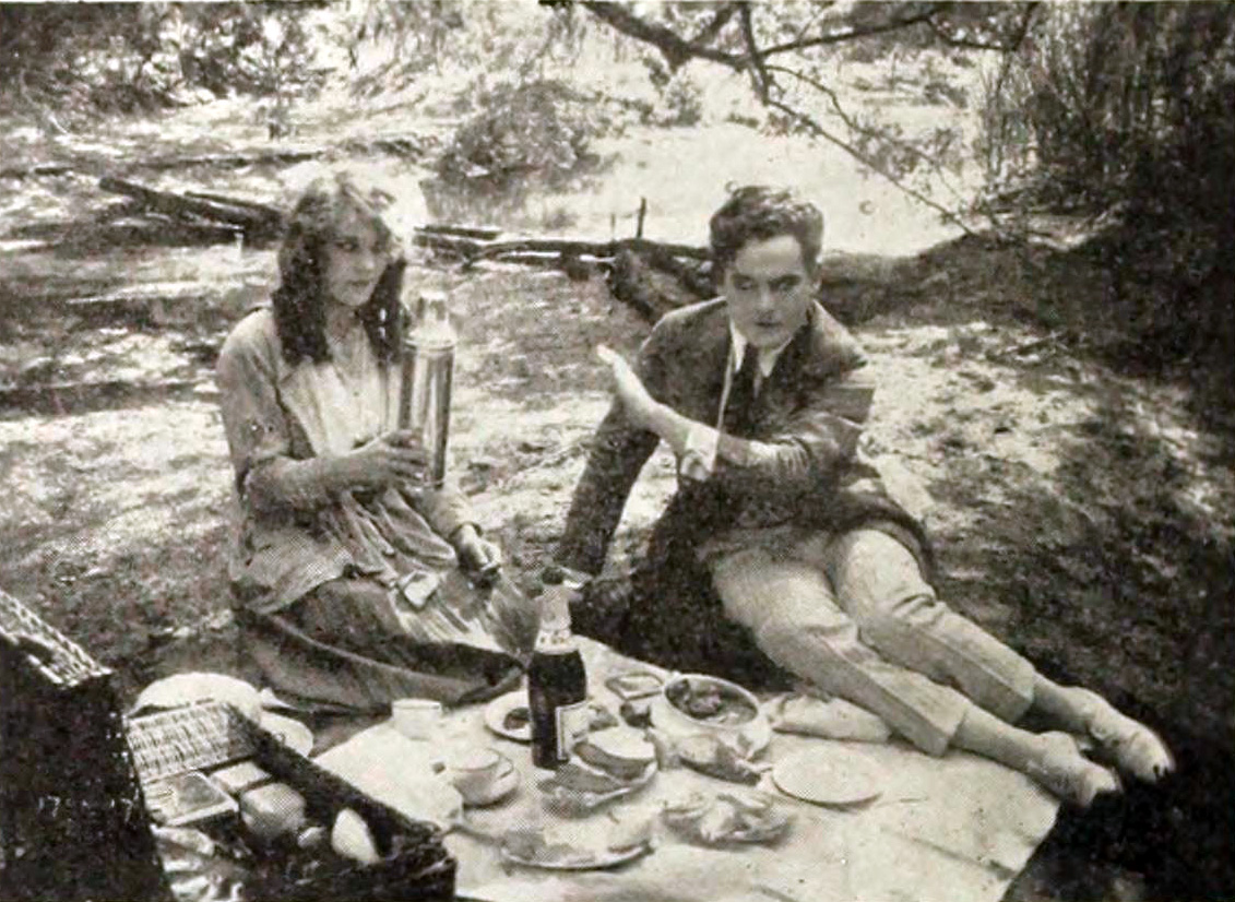 Film still for a review in The Moving Picture World of the American film Bobbie of the Ballet (1916). "There might be an objection to the number of apparently unnecessary closeups of Miss Lovely which were evidently suggested to the director by the unusual beauty of the star."